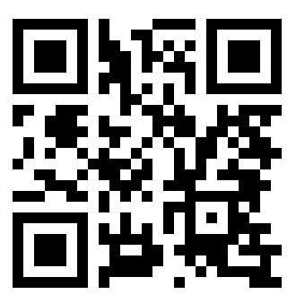 QRpedia link to Wicipedia cy Homepage